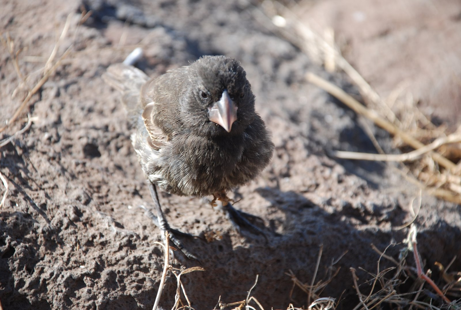 A Large Cactus-finch on Española Island, the Galápagos Islands, Ecuador.